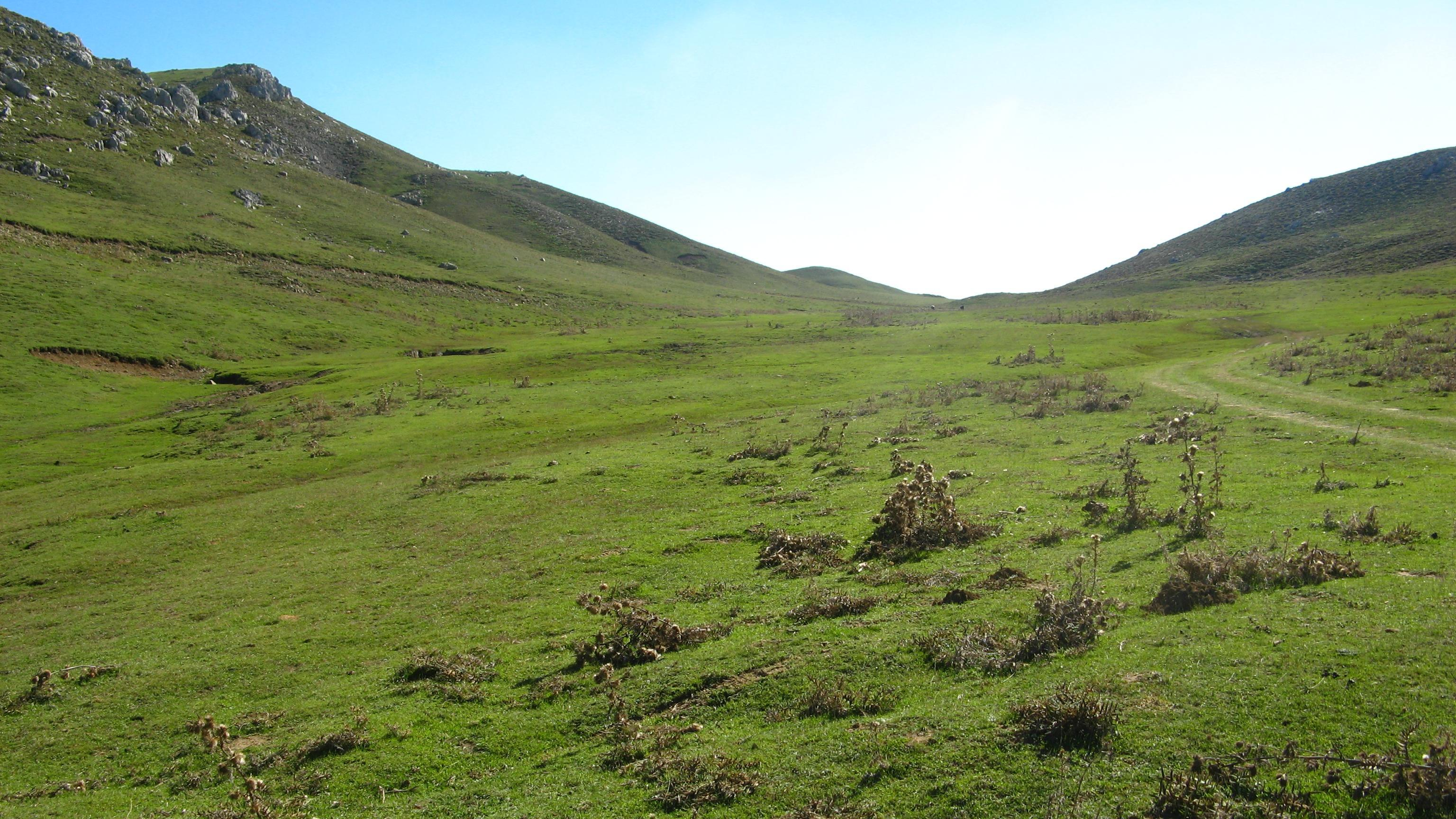 The Plateau of Prasoudi in Panachaiko in Greece.